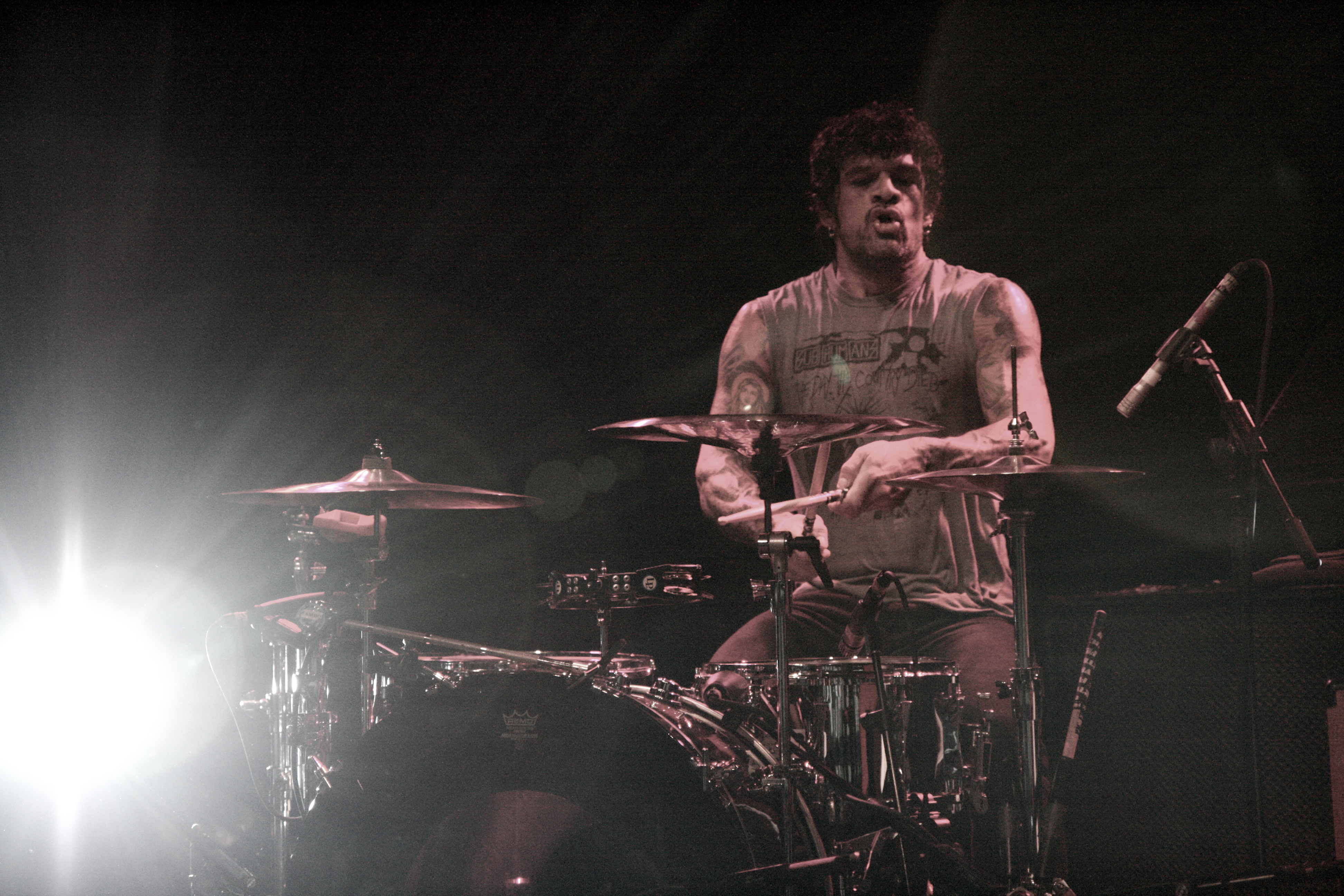 Joey Castillo playing with the Eagles of Death Metal at the Commodore Ballroom in July of 2009